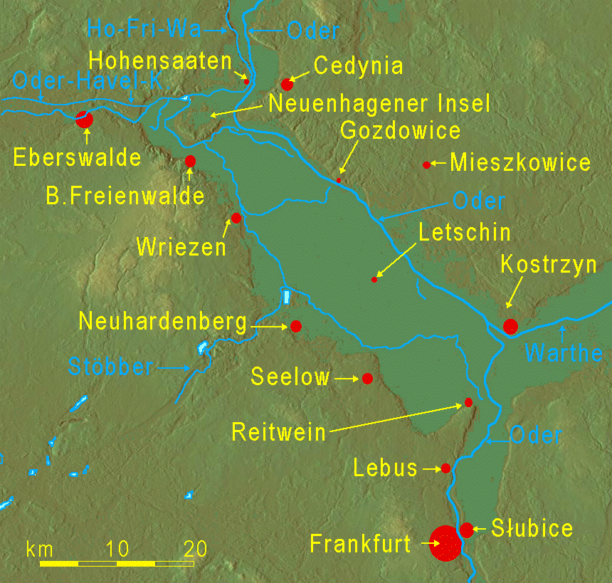 Map of the Oderbruch